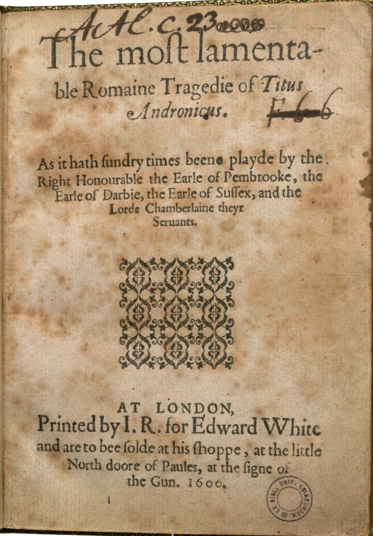 Quarto title page for Q2 of Titus Andronicus (1600)